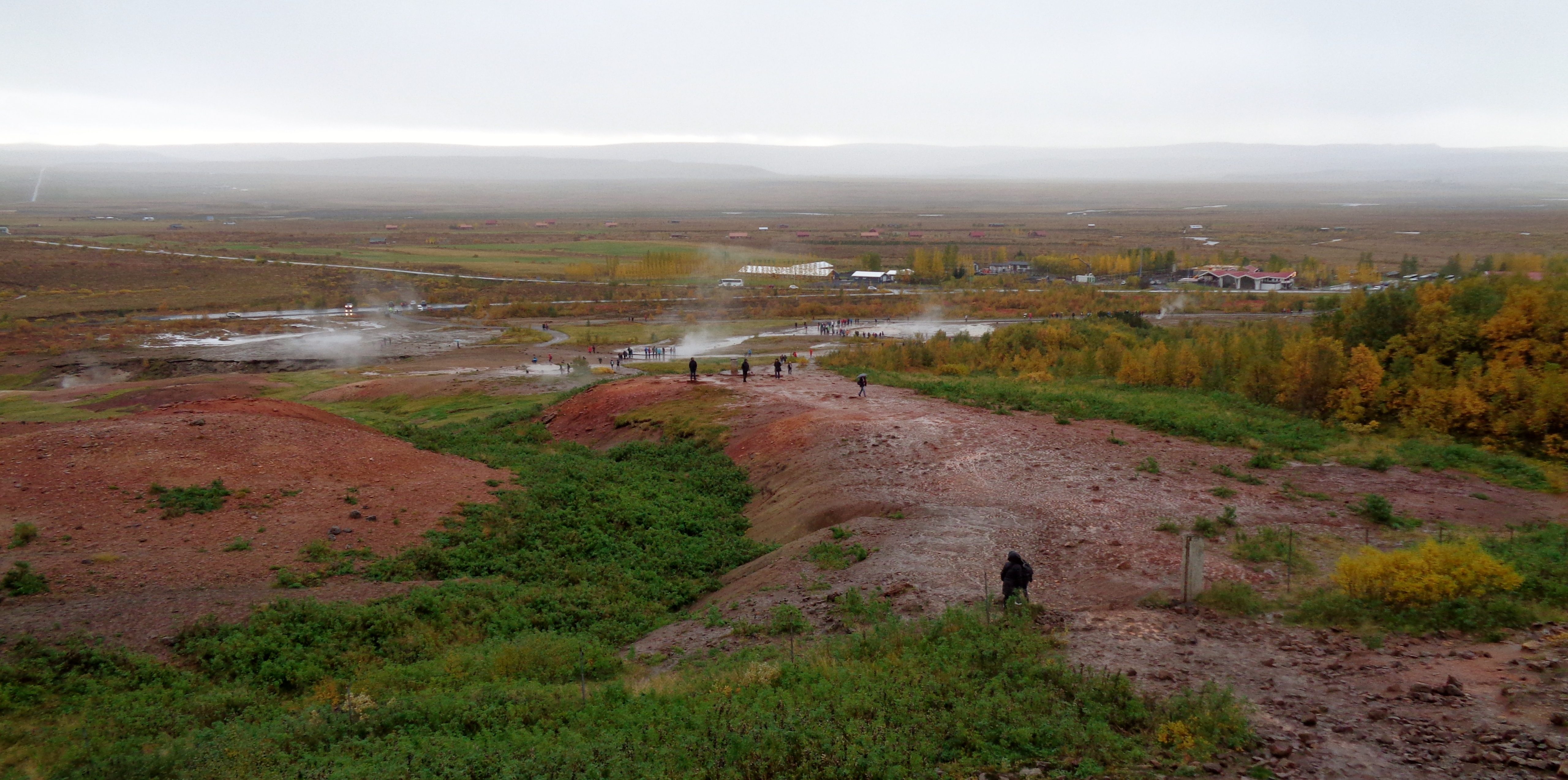 Overview of the Geysir Geothermal Area in Haukadalur, with (from left to right) Geysir, Strokkur and the visitor centre.